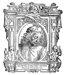 Illustratio from "Le Vite" by Giorgio Vasari, edition of 1568. For the artist portrayed see filename